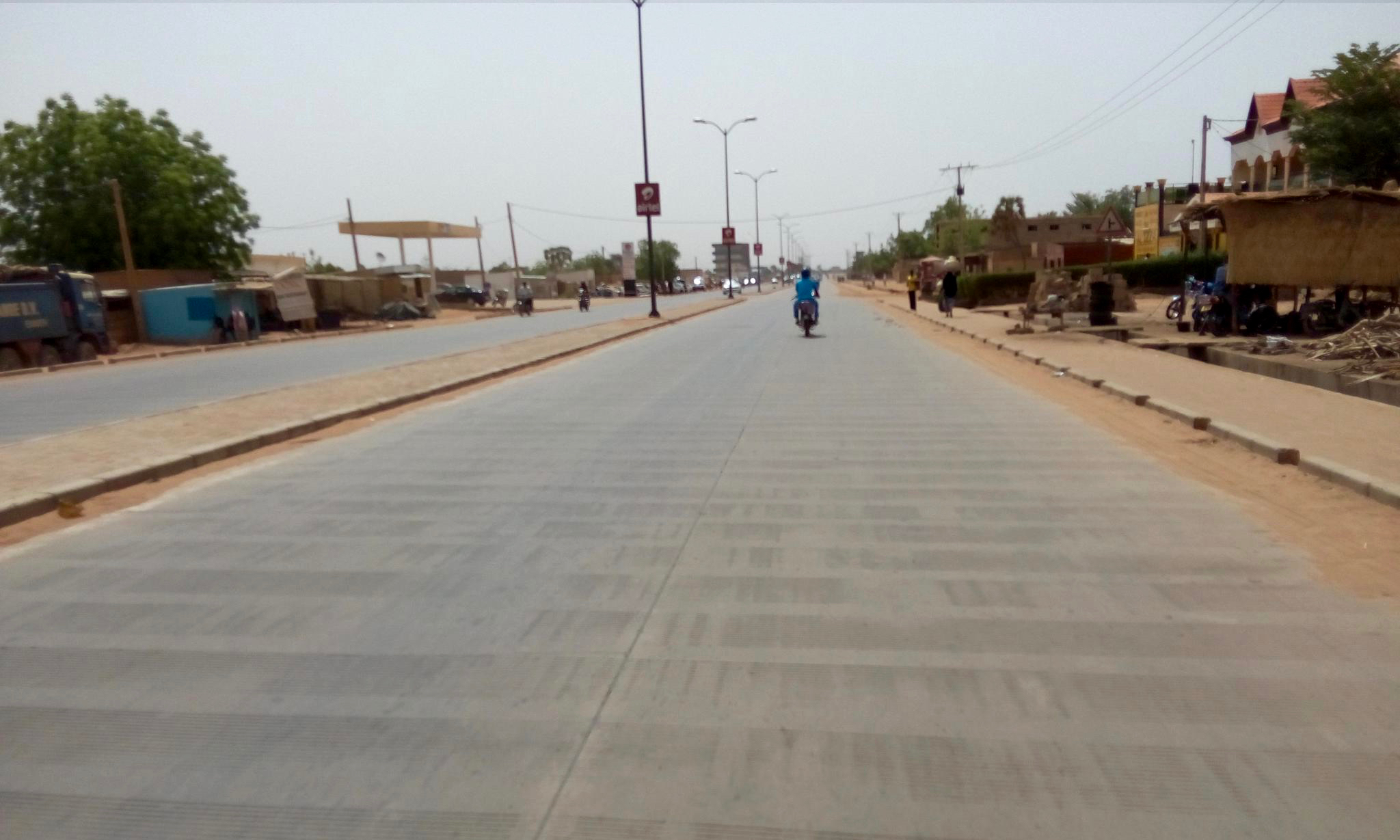 Boulevard du Developpement, Kirkissoye, Niamey.